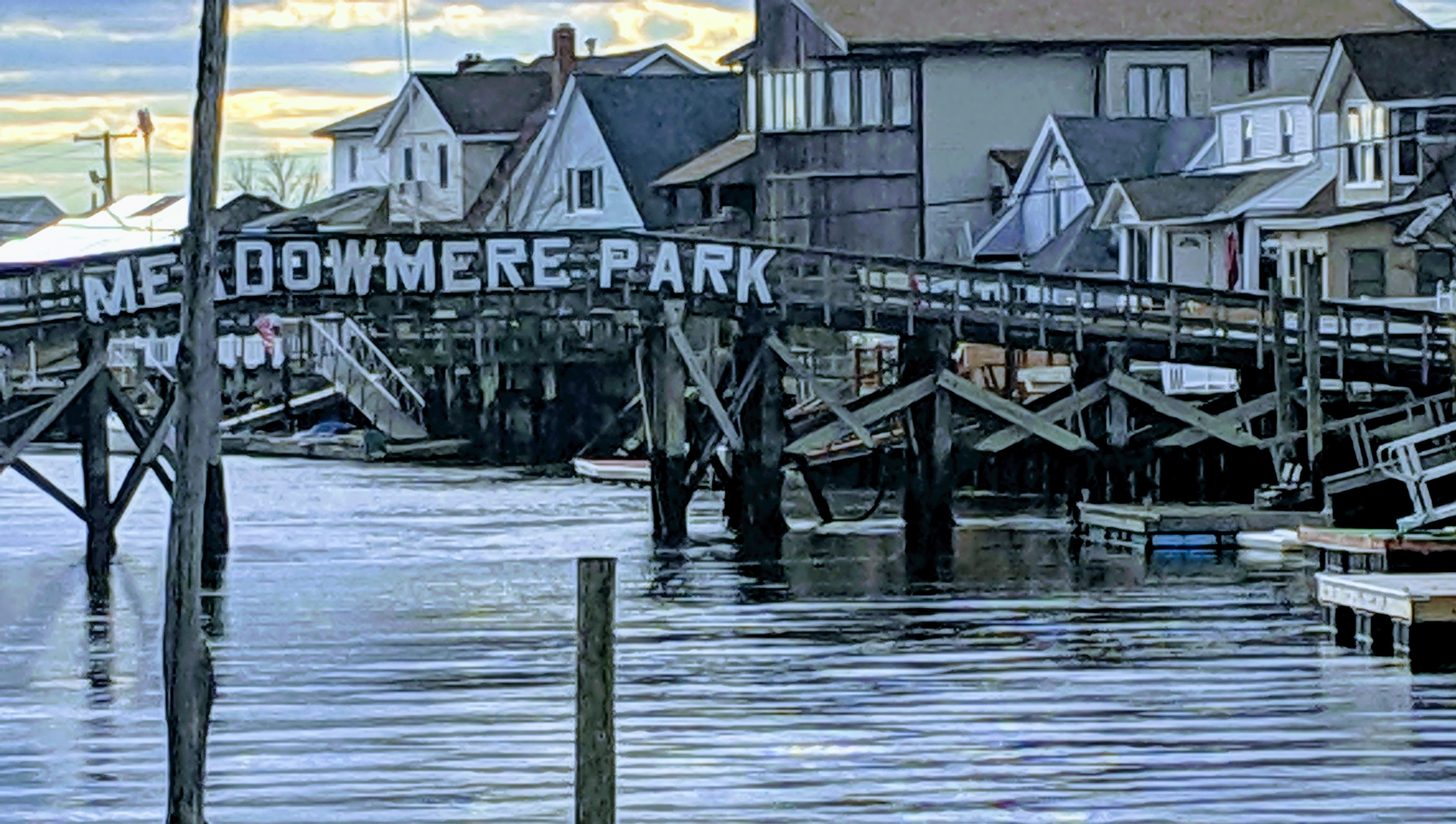 110yr old wooden pedestrian bridge over hook creek